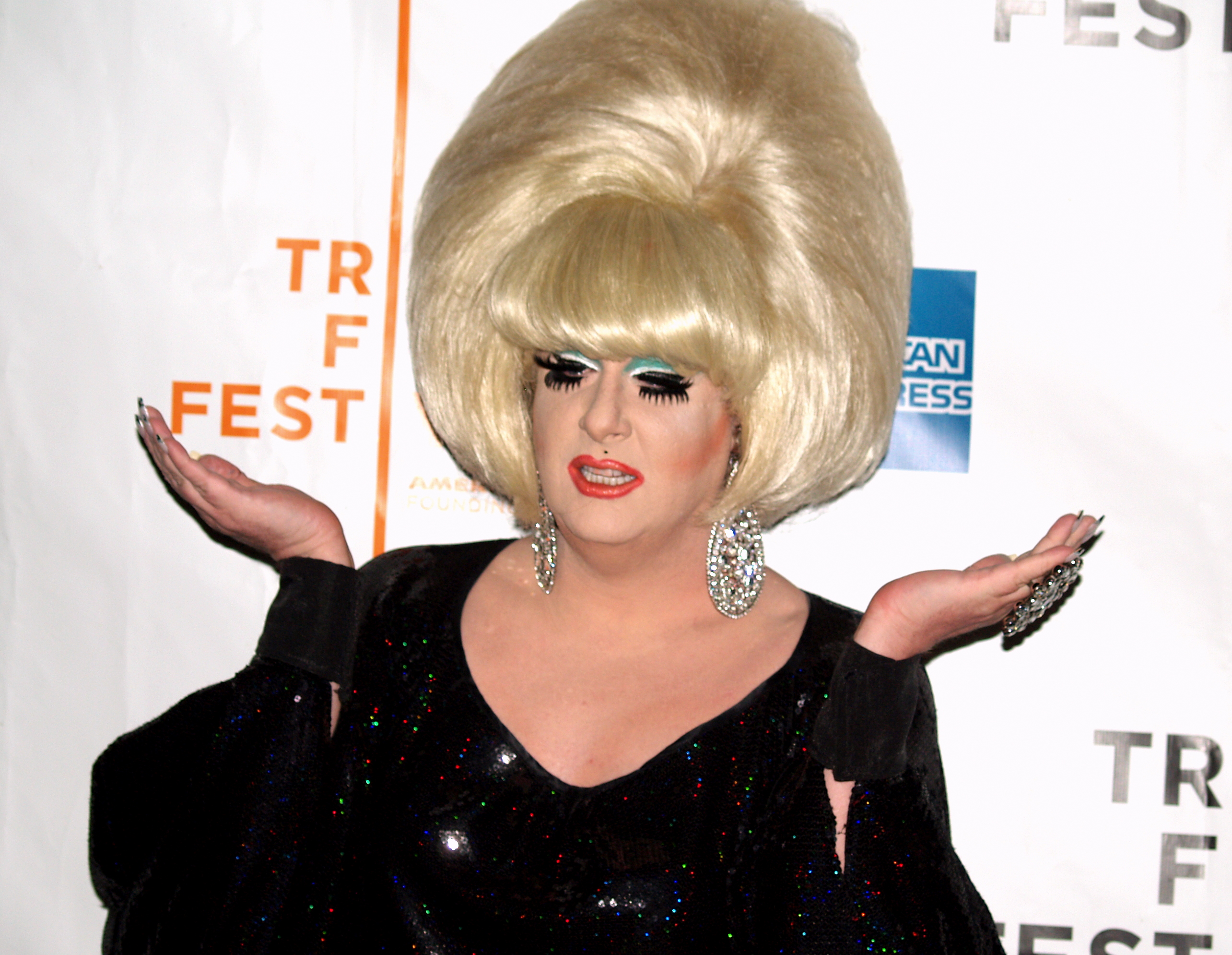 Lady Bunny at the premiere of Squeezebox! at the 2008 Tribeca Film Festival.